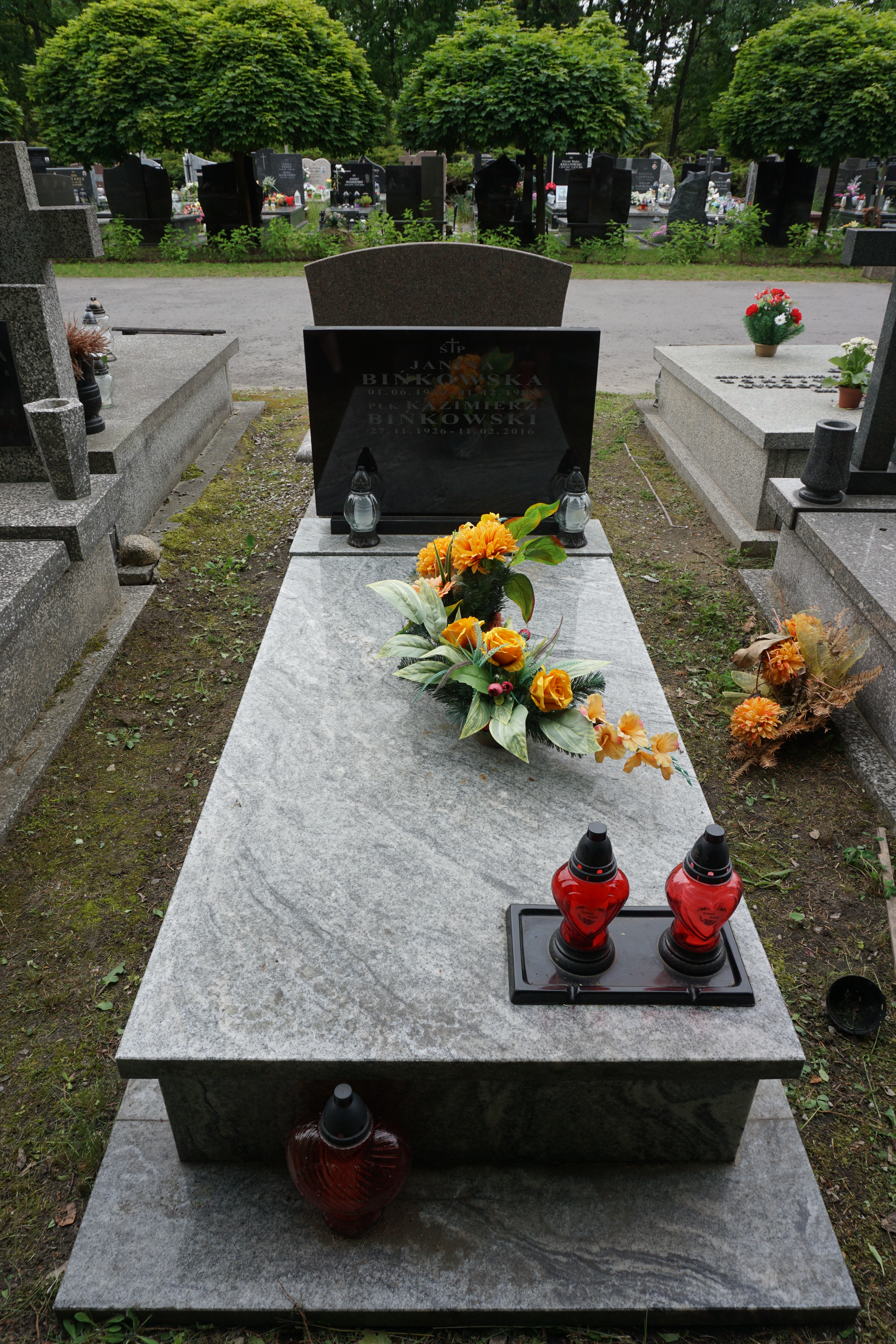 The grave of Kazimierz Bińkowski at the North Municipal Cemetery in Warsaw (section E-XV-1, row 2, grave 9)